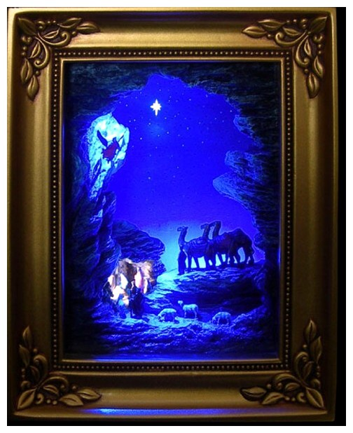 Robert Olszewski's Nativity Gallery of Light created for Enesco, LLC in 2010 with lights on. Dimensions of piece are 4 3/4" w x 6 1/16" h x 3 13/16" deep. Aug. 31, 2011